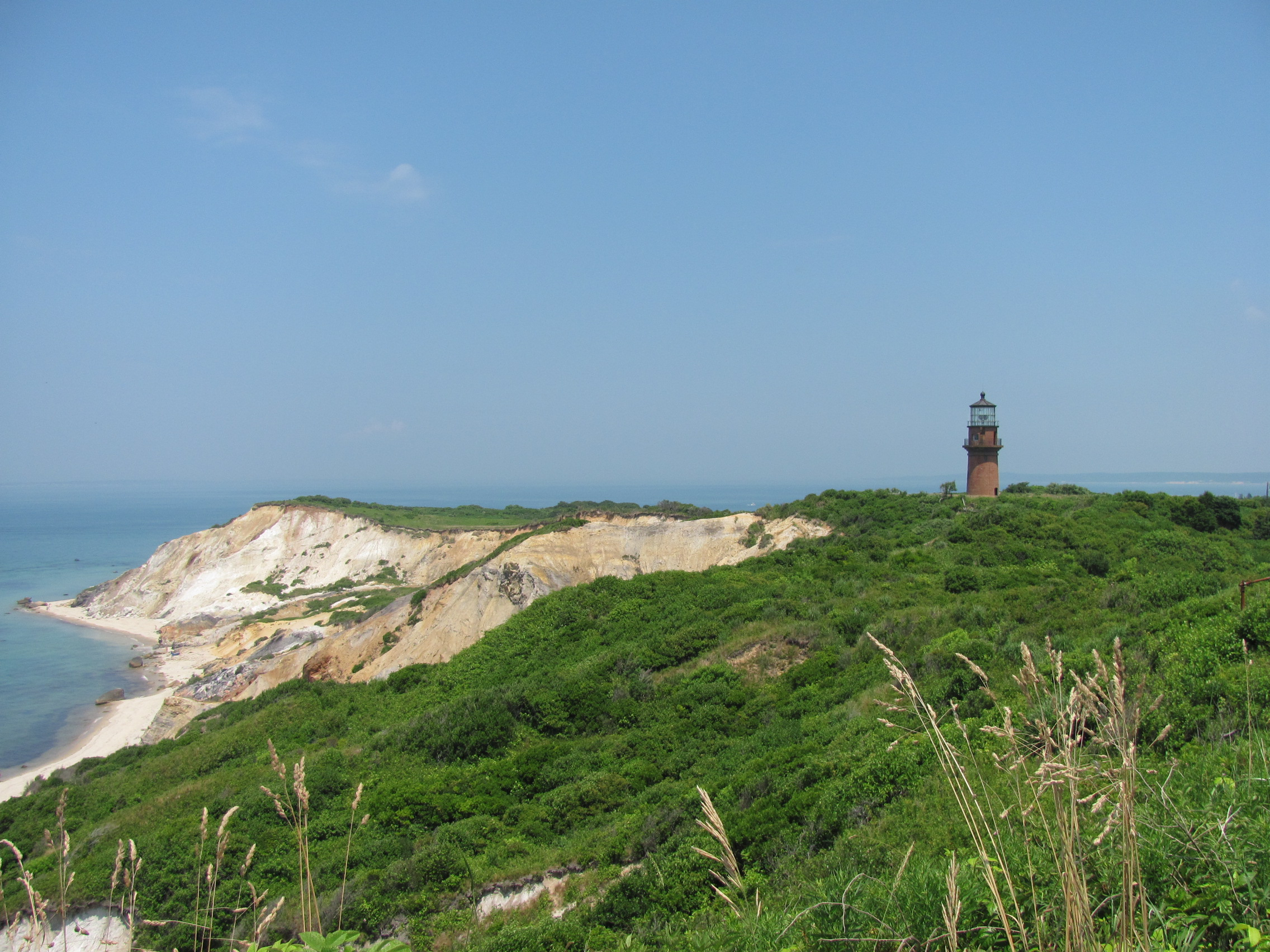 Gay Head Light, Aquinnah Massachusetts